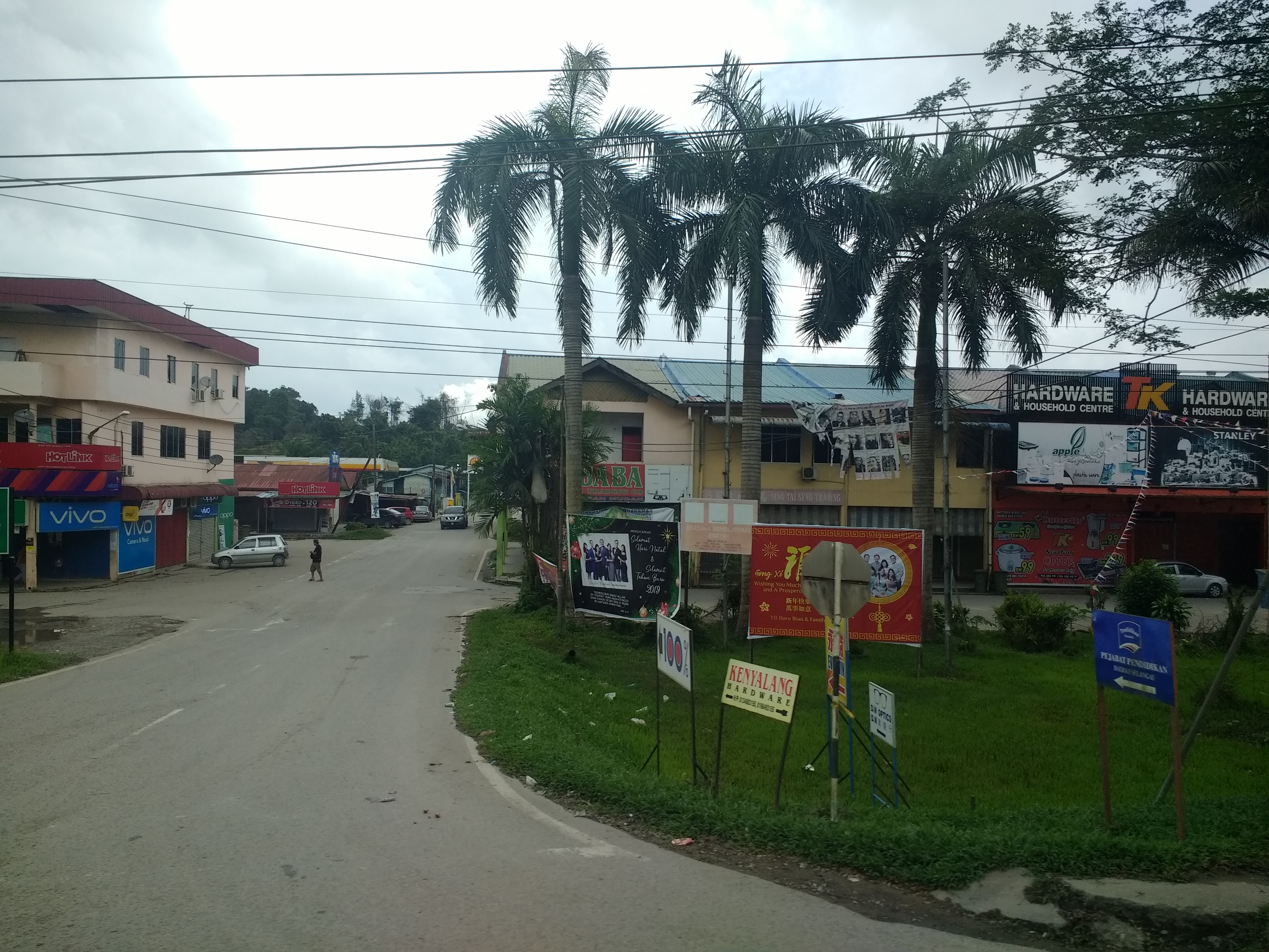 Buildings in Selangau, Sarawak, Malaysia.